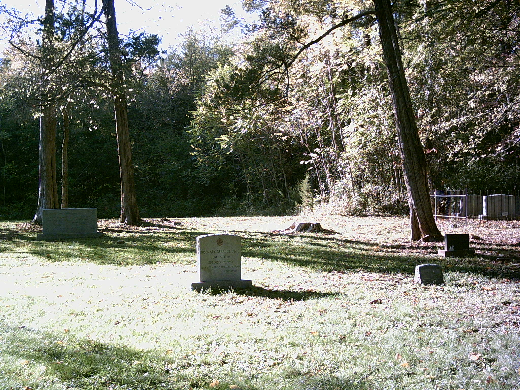 Cemetery behind Grace Church in Ca Ira, Virginia